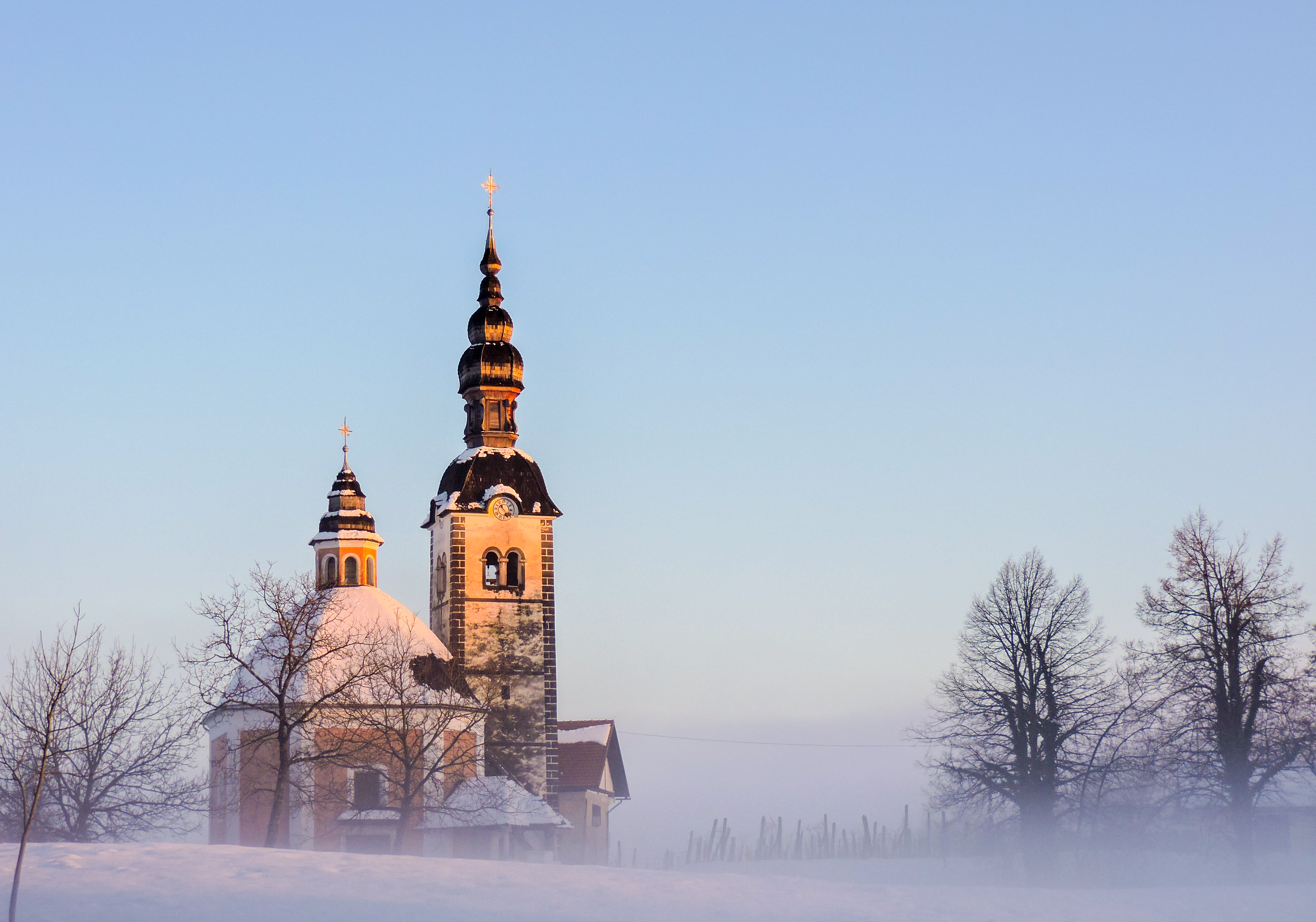 This church located on top of village Vinji vrh in the municipality of Semič in Slovenia and has 2 anointed saints. The Holy Trinity and Saint Martin. It was built in 1647 and has been a pilgrimage site ever since, specially for Saint Martin. The main altar is the work of F.A. Nirenberg from the year 1741. It is one of the largest altars in Bela krajina (White Carniola) and Dolenjska (Lower Carniola) regions. It is gold plated and takes place in the whole presbytery. The church has two side altars that are baroque in nature.